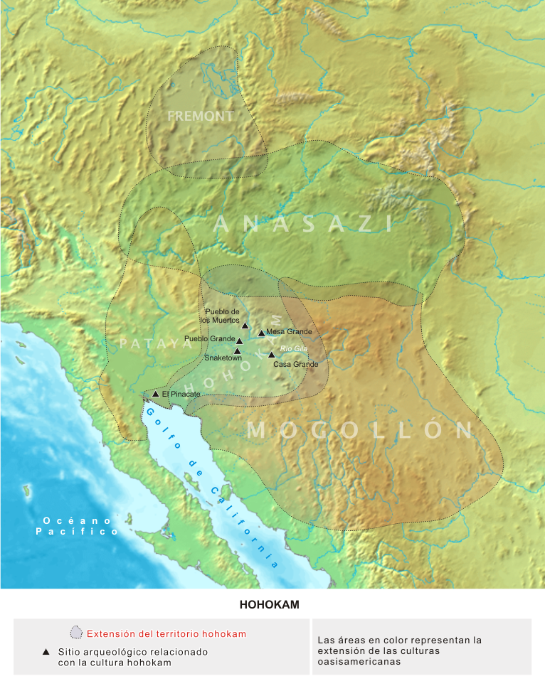 Location map of the Hohokam culture — one of the four major prehistoric Oasisamerica traditions of the Ancient Puebloan peoples in Southwestern North America. The culture's pre-Columbian archaeological sites are located in present day Arizona.